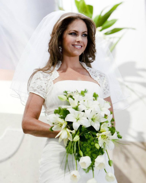 Lucero Leon hogaza noiva da america atriz cantora e apresentadora mexicana!